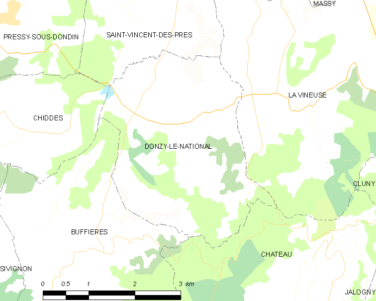 Map of French municipality